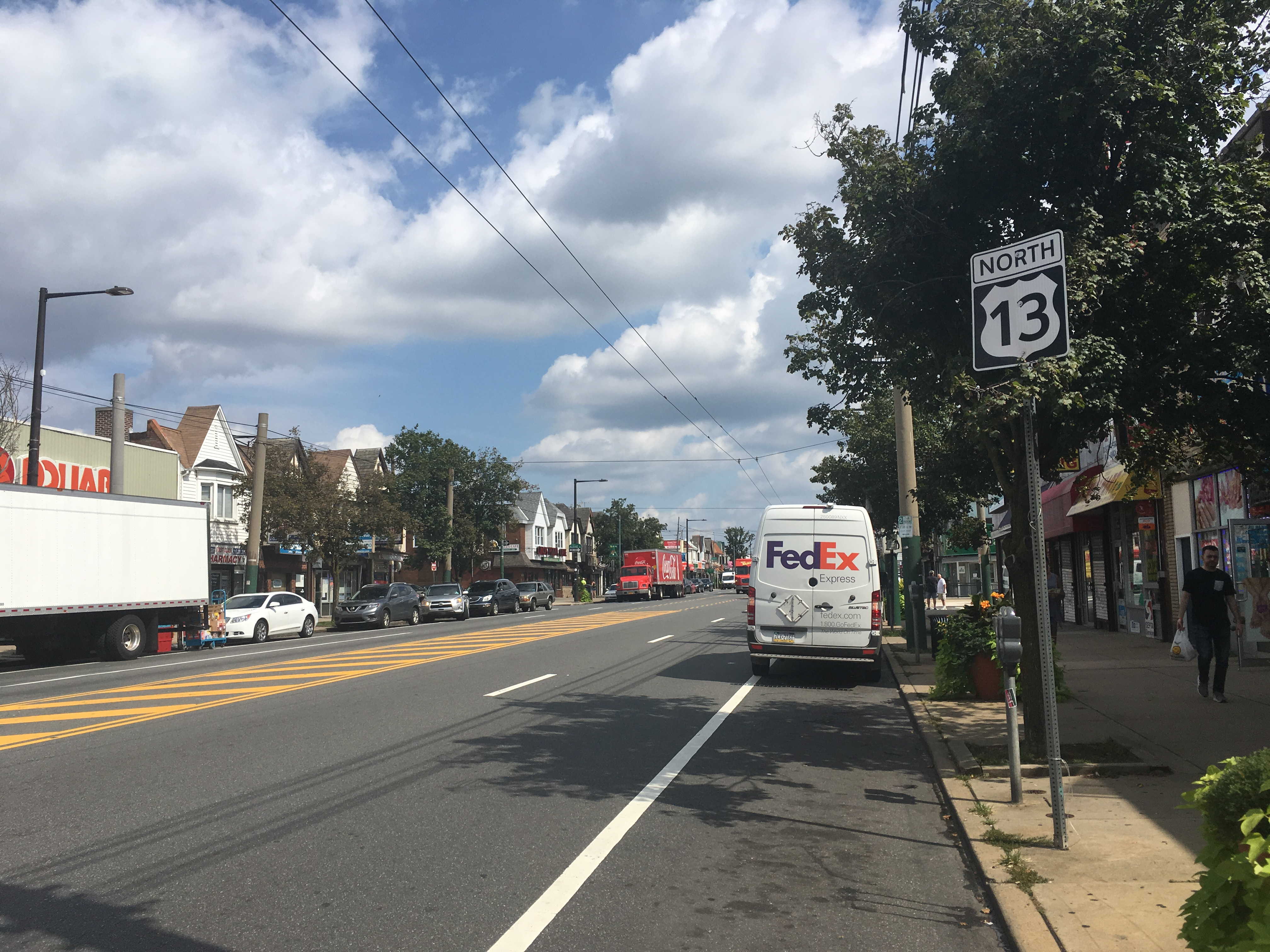 Northbound U.S. Route 13 (Frankford Avenue) past the intersection with Pennsylvania Route 73 (Cottman Avenue) in Philadelphia, Pennsylvania